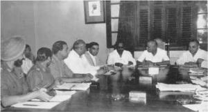 Conference of Rajpramukhs convened by the States Ministry to discuss the future of the Indian States Forces. On the left are the Rajpramukhs of Pepsu, Madhya Bharat, Rajasthan and Saurashtra.